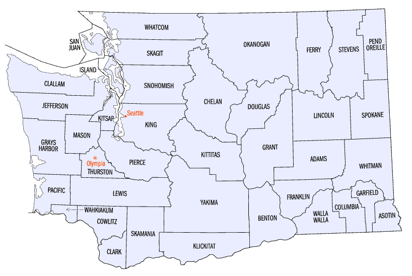 Map of counties in Washington State, U.S. Category:Washington maps